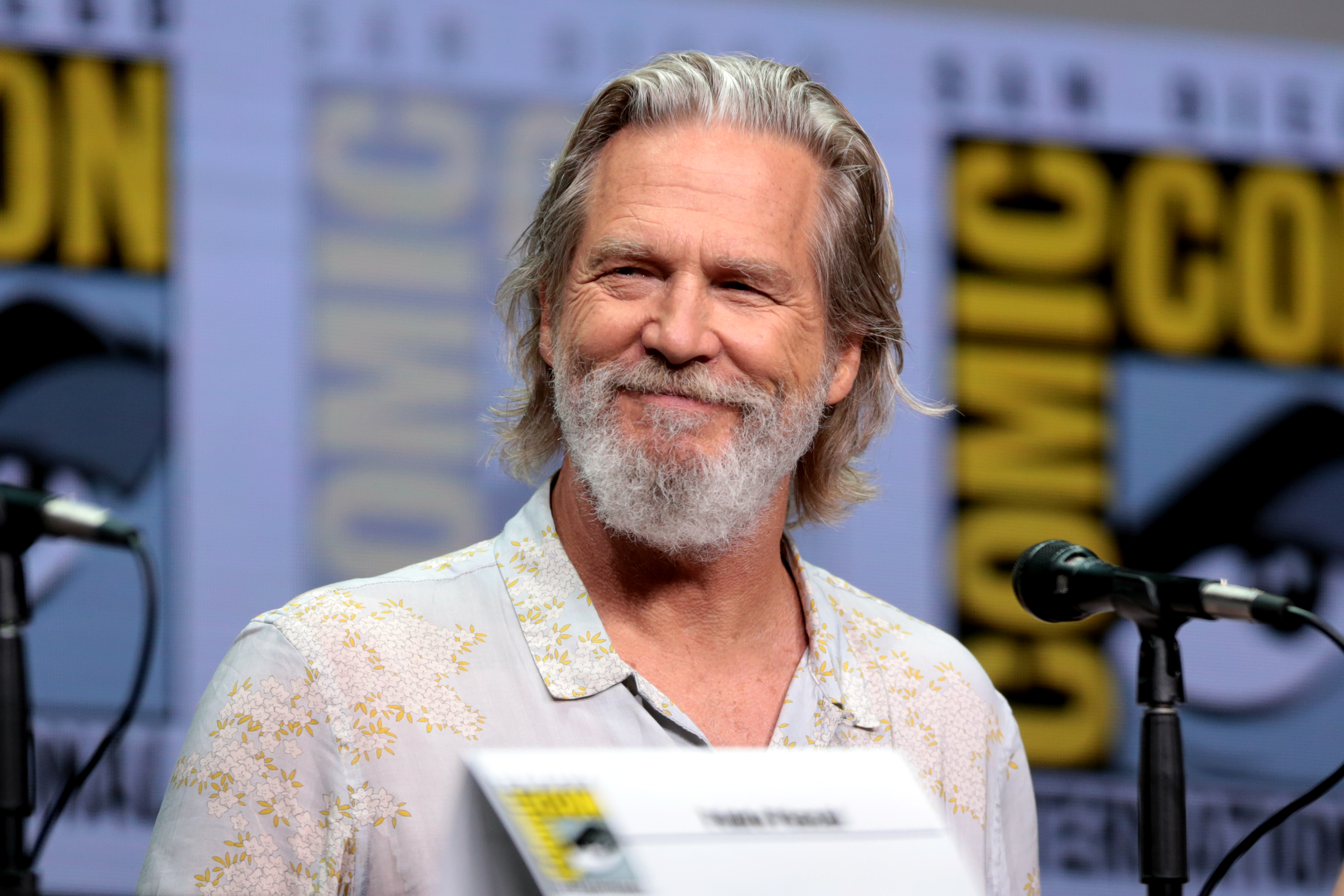 Jeff Bridges speaking at the 2017 San Diego Comic Con International, for "Kingsman: The Golden Circle", at the San Diego Convention Center in San Diego, California.